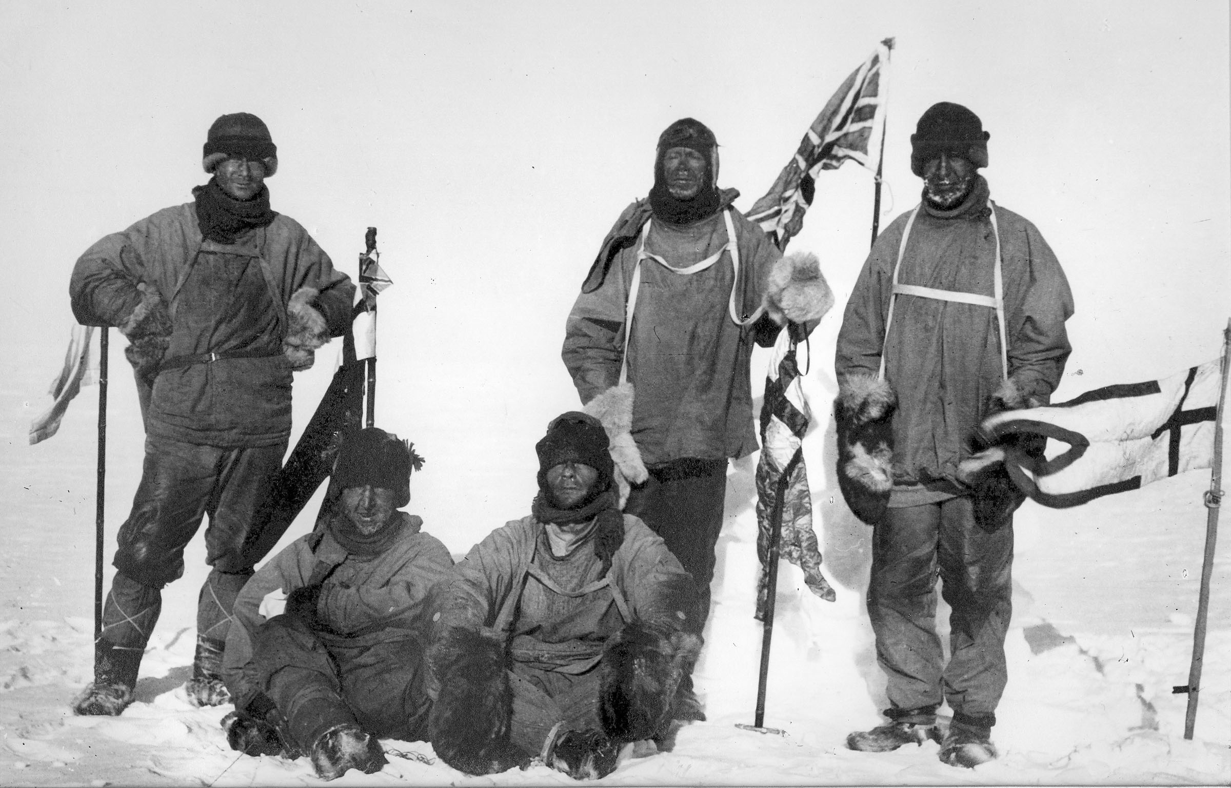 Last expedition of Robert Falcon Scott. The image shows Wilson, Scott and Oates (standing); and Bowers and Evans (sitting).